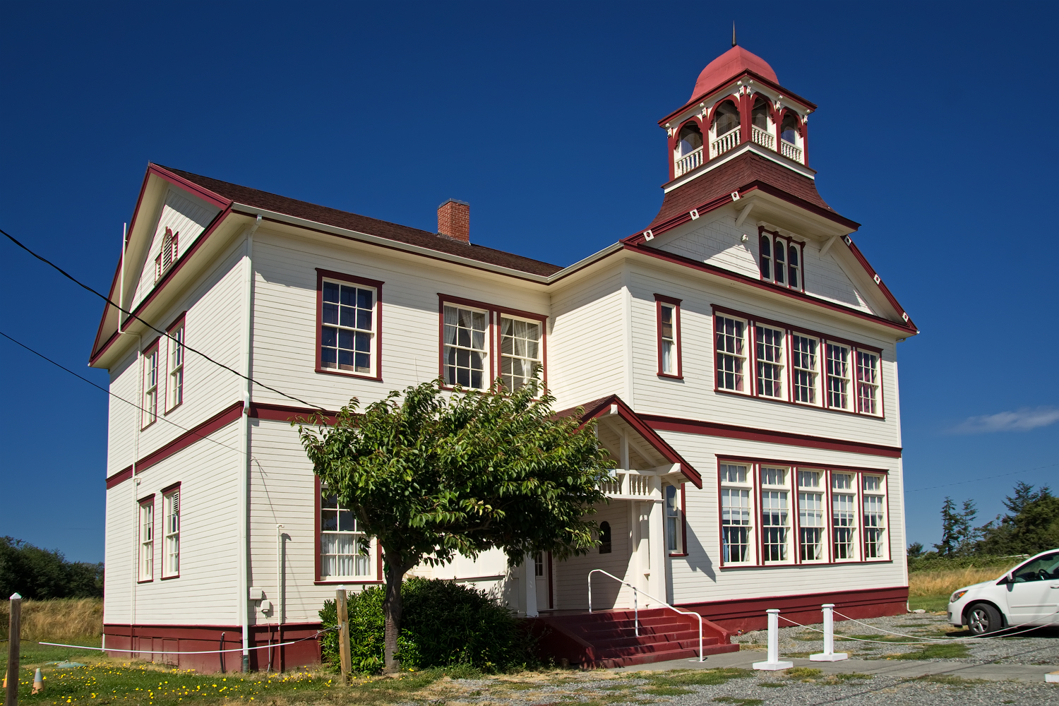 Old Dungeness School House